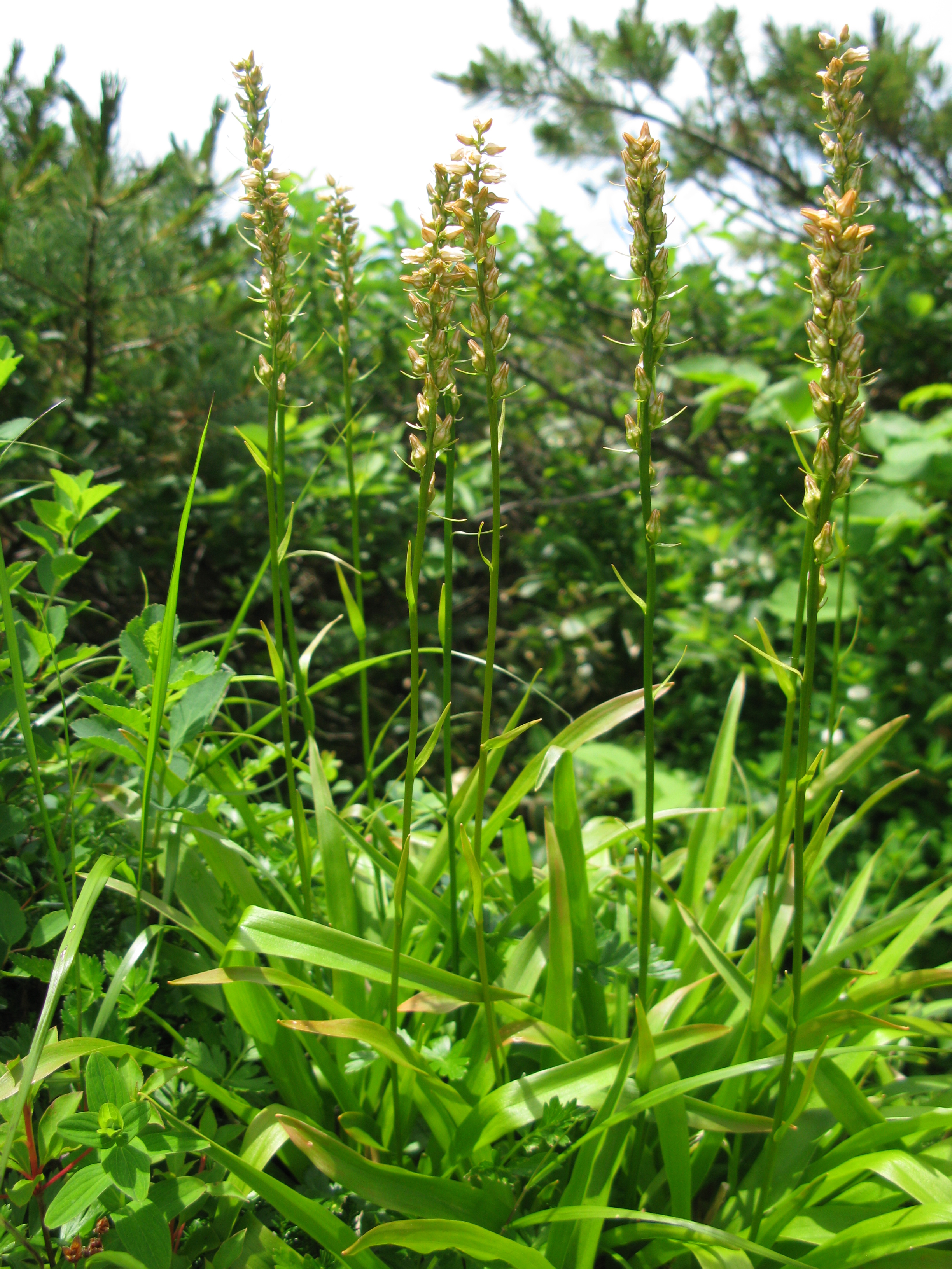 Aletris foliata, Mount Nasu-dake, Tochigi pref., Japan